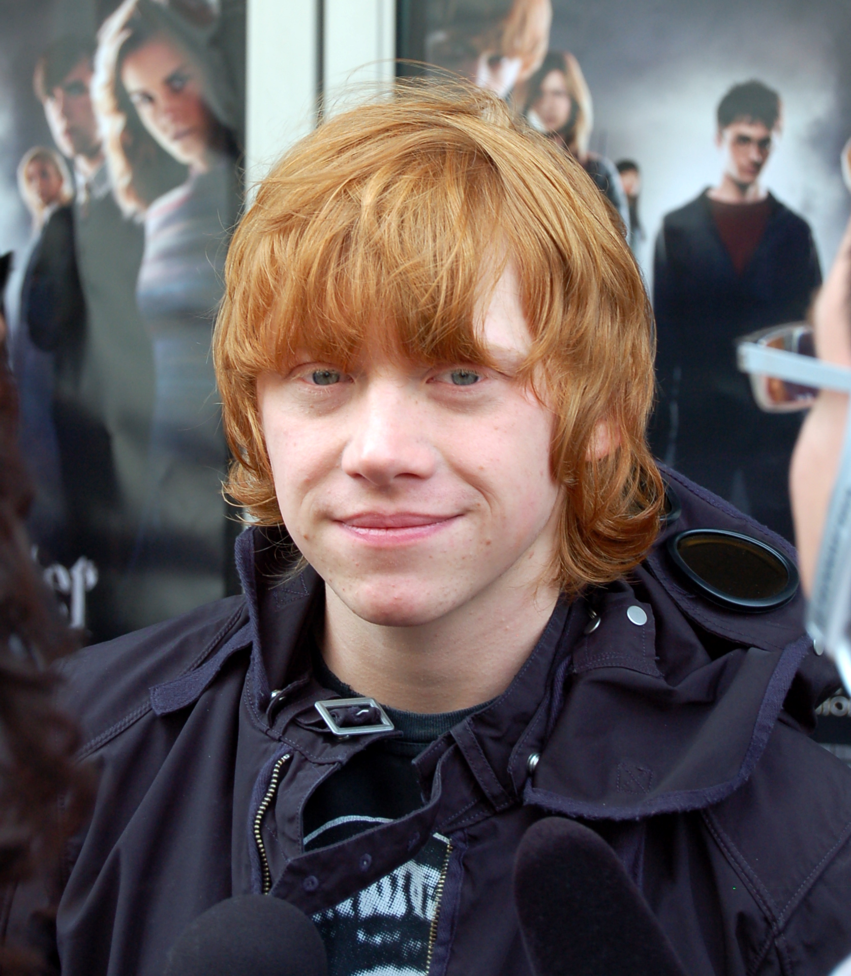 Rupert Grint outside the premiere of 'Harry Potter and the Order of the Phoenix' in Toronto, Canada.